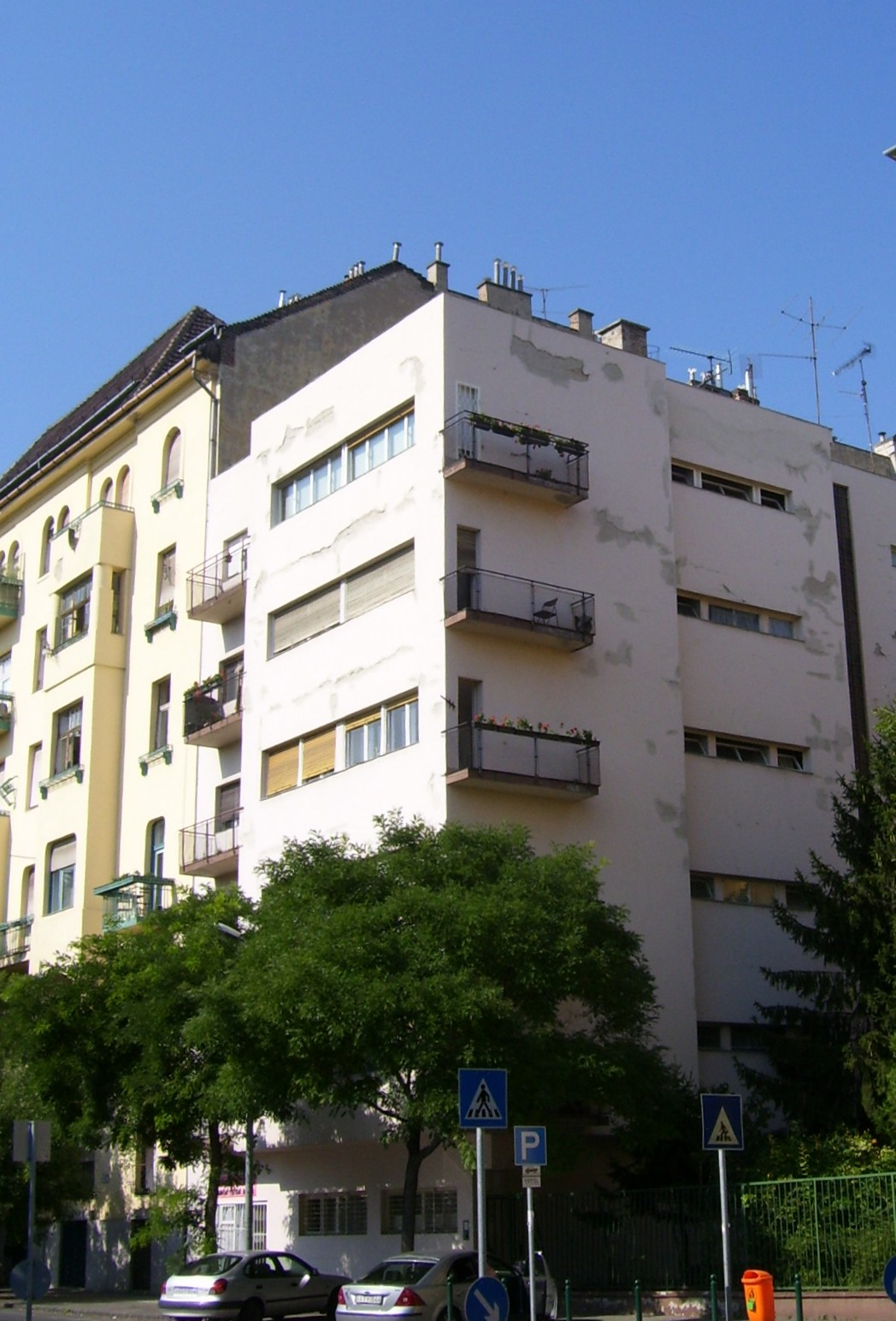 Apartment house in Budapest 01, Attila u. 127, Arch: Máté Major & Pál Detre, 1933/4